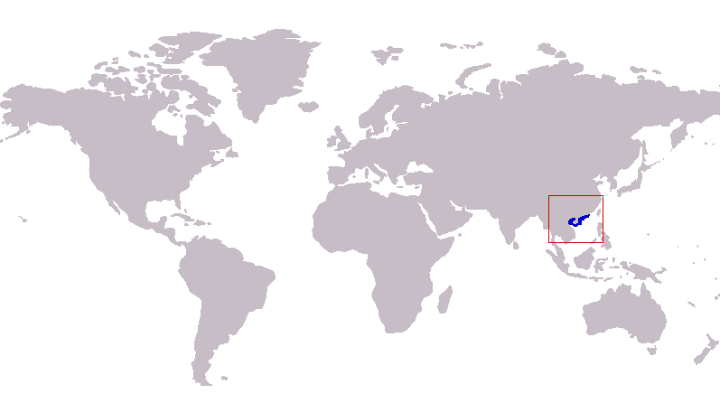 Distribution of Boutan's whiting, Sillago boutani using map based on GDFL image